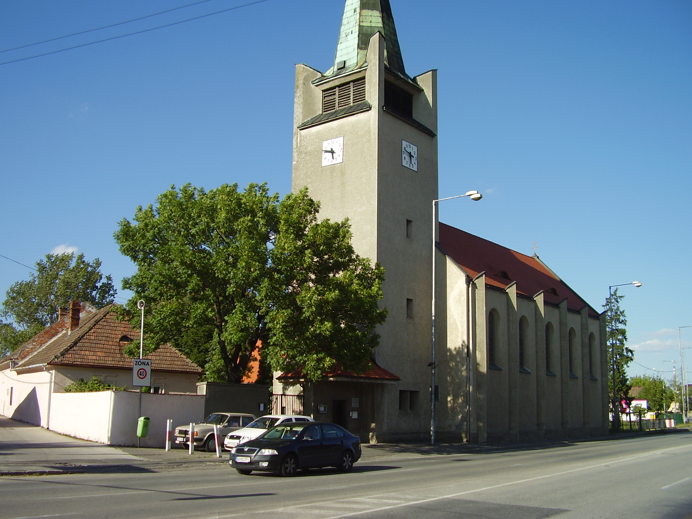 Church of Grinava, Pezinok District, Bratislava Region, Slovakia